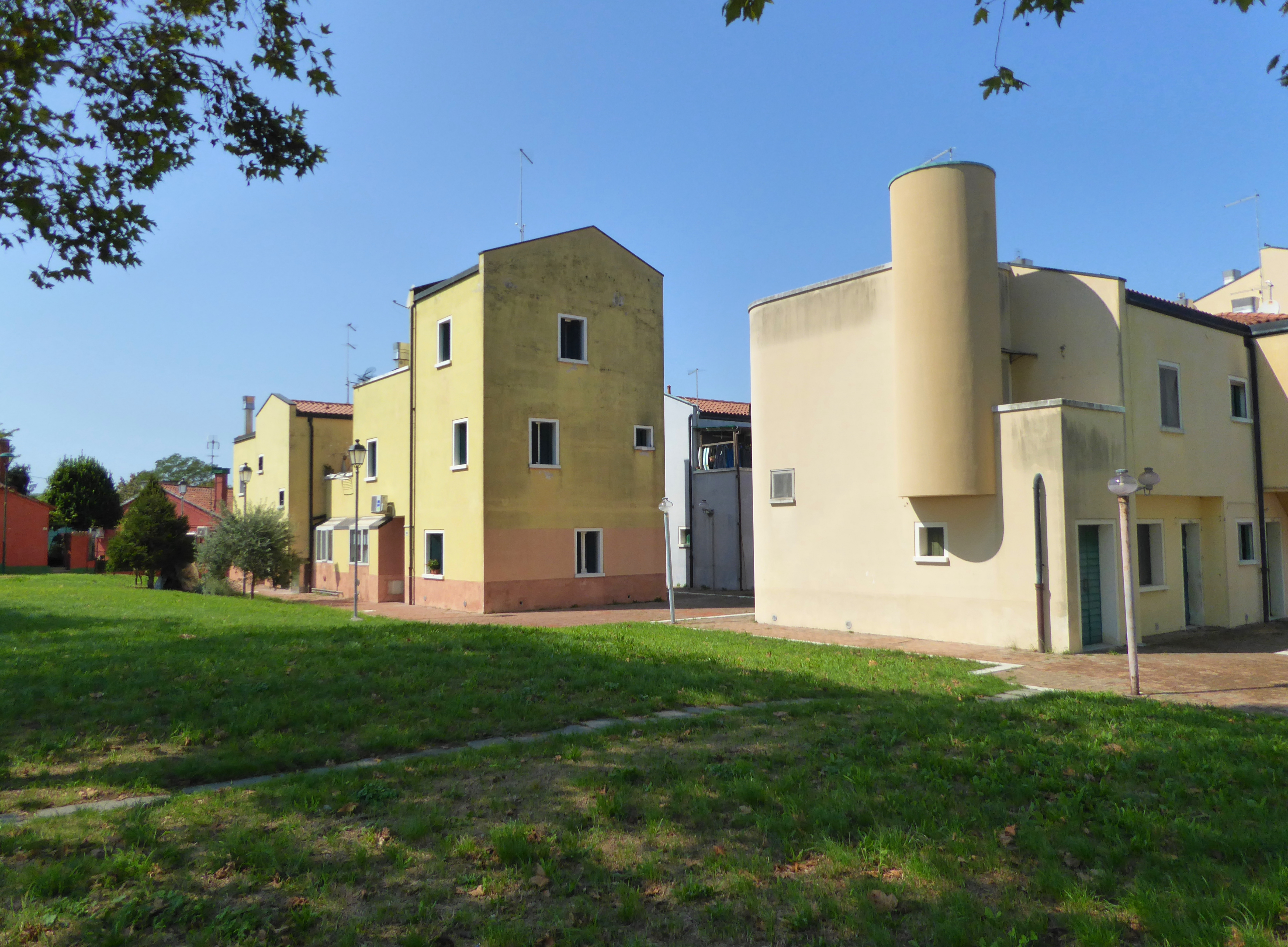 Houses along the eastern side of Mazzorbo in Veneto.